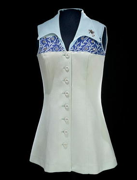 Fig. 4 Billie Jean King’s dress by Ted Tinling 1973. The National Museum of American History